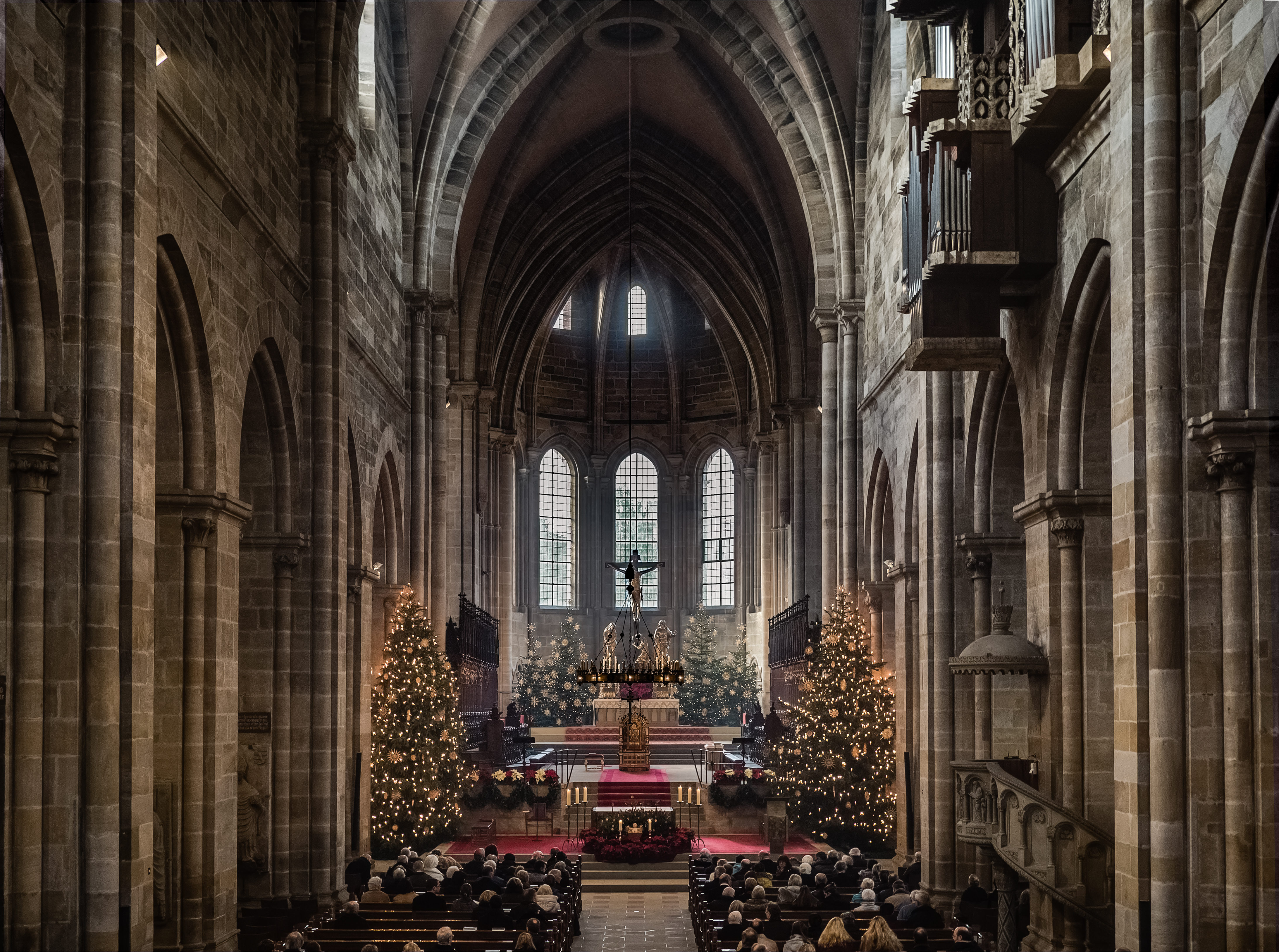 Christmas Mass in Bamberg Cathedral